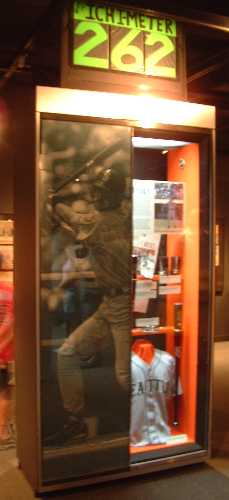 The display shows the annual hitting record achieved by Ichiro Suzuki in 2004.